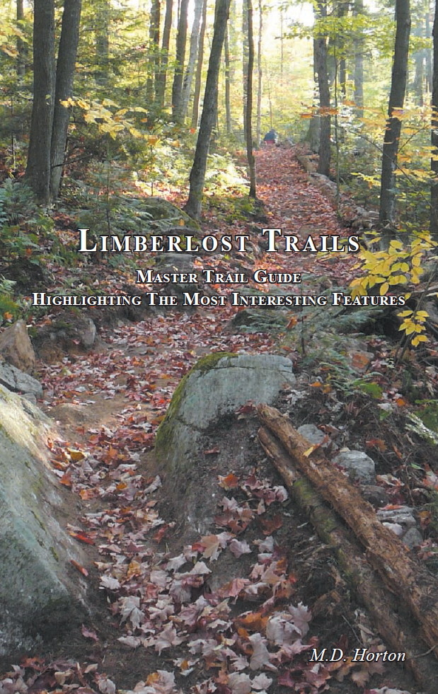 The Master Trail Guide provides day users with information on the extensive trail network that can be used at no charge.